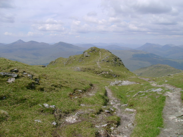 WNW Ridge of Beinn Chabhair A good path follows the upper section of the WNW ridge of Beinn Chabhair, pictured here from just below the munro summit.